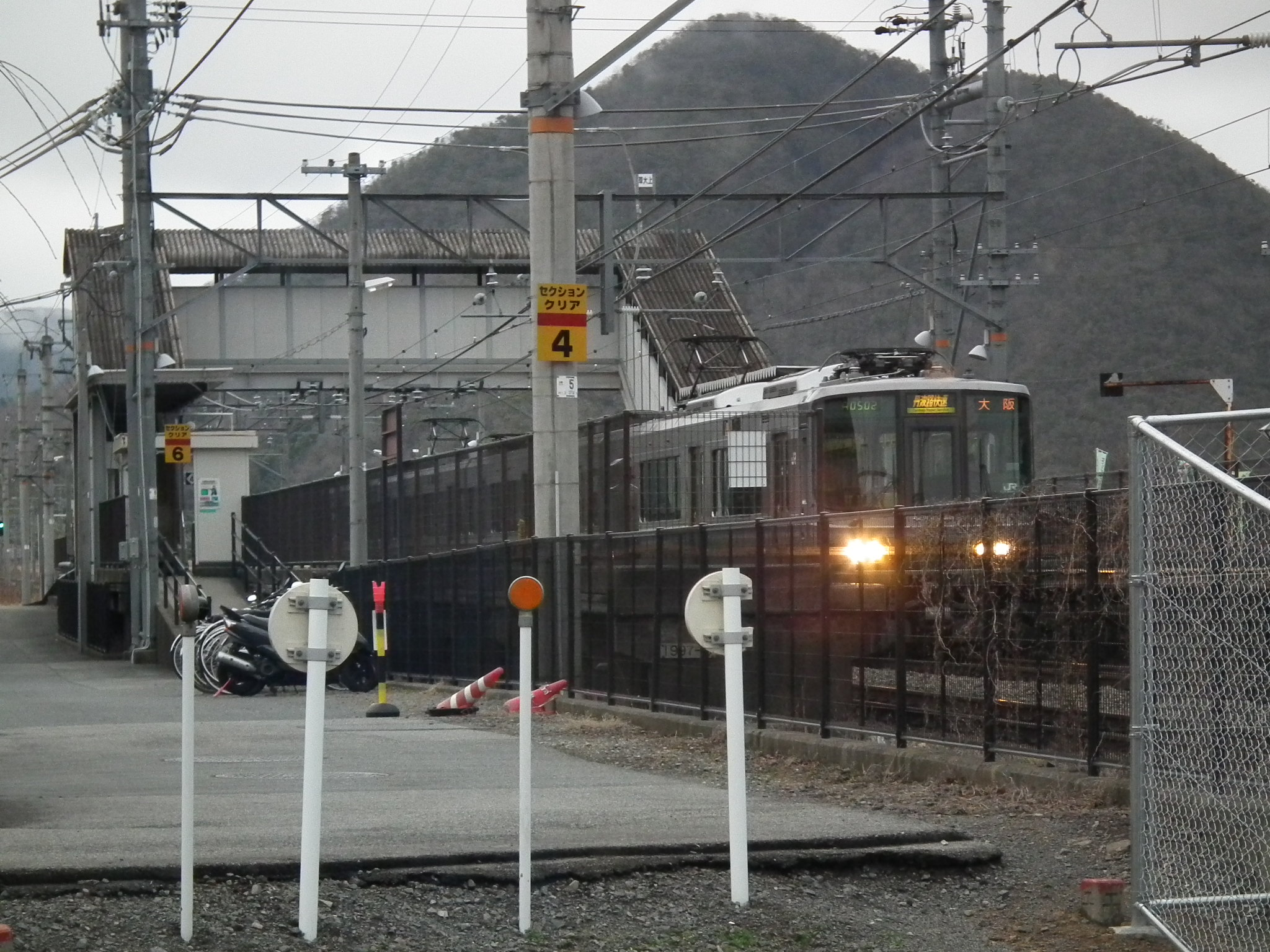 Kusano stn JR福知山線 草野駅